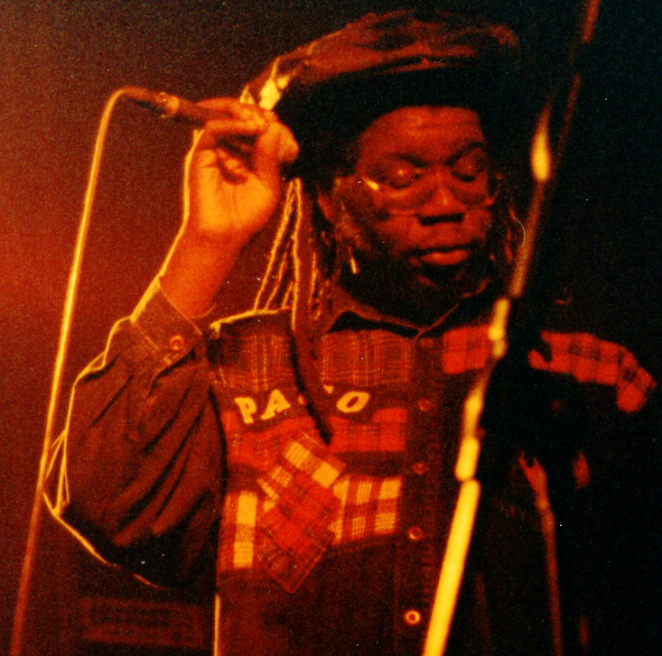 British Reggae artist Macka B. in the early 1990s.